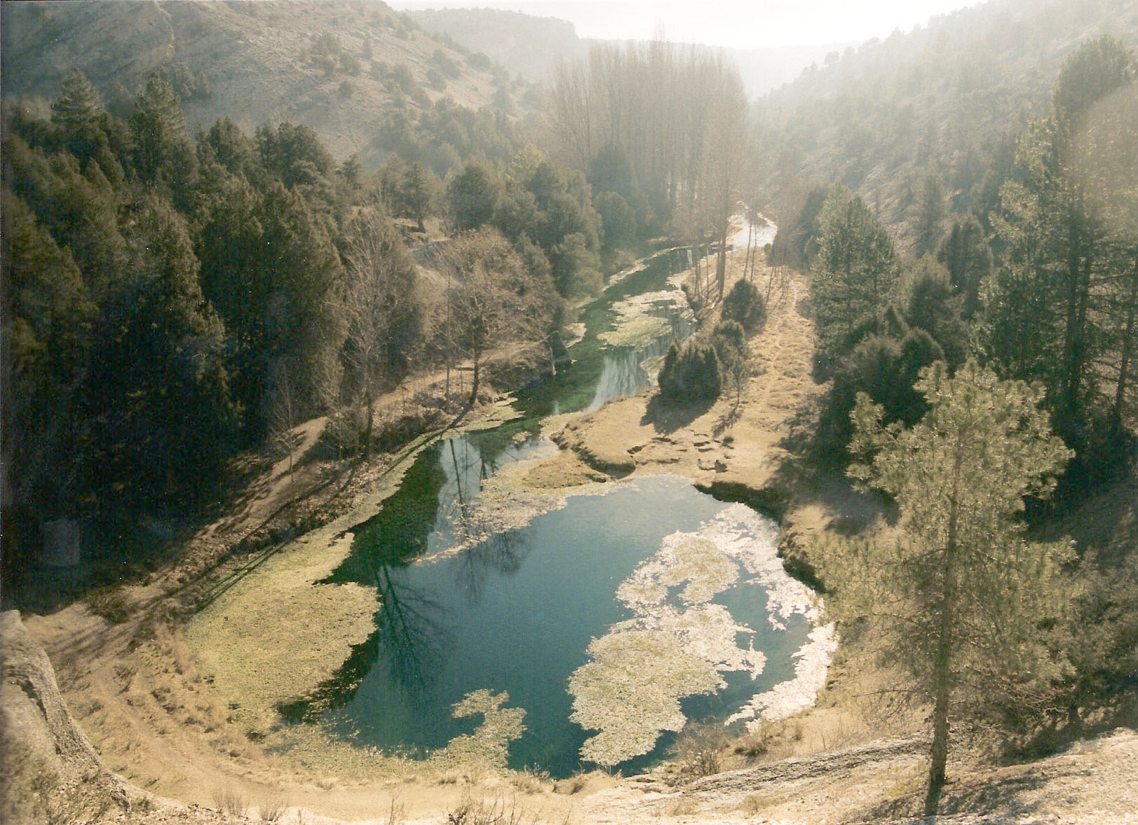 large karst spring in protected topography Monumento Natural de la Fuentona, Spain